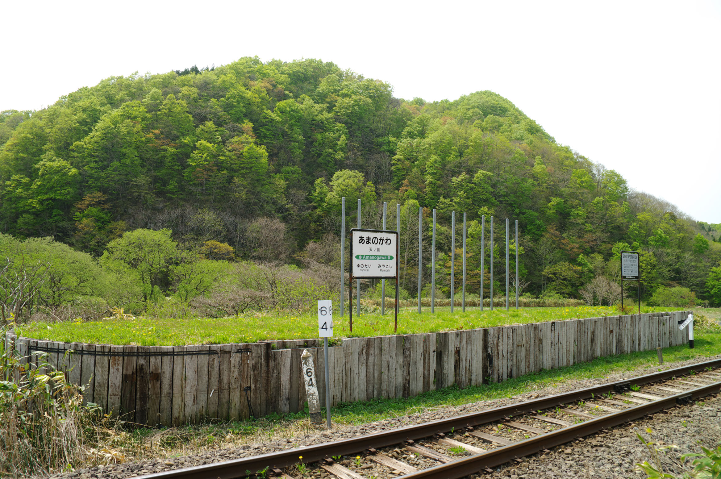 Amanogawa dummy station, Kaminokuni, Hokkaido, Japan